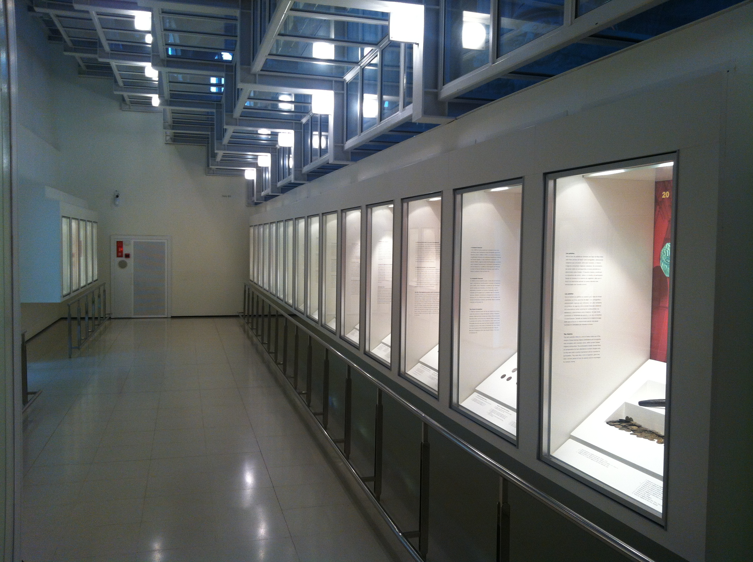 Numismatic collection conserved at MNAC in Barcelona.The collection of the Numismatic Cabinet of Catalonia, open to consultation by researchers, is formed by over 135,000 pieces. The principal numismatic series are represented here, with coins dating from the 6th century BC to the present day, as well as medals, valuable paper, tokens, monetary weights, scales, dies, decorations and insignia. Of all this wealth of material, the most important and emblematic series are without doubt the Catalan ones. They include extremely rare pieces, such as the first silver coins ever struck in the Iberian Peninsula by the Greeks of Emporion, the issues of the Catalan counties, those of the 17th-century Reapers’ War, those of the Napoleonic invasion and the bank notes issued by local councils in Catalonia during the Civil War of 1936-1939